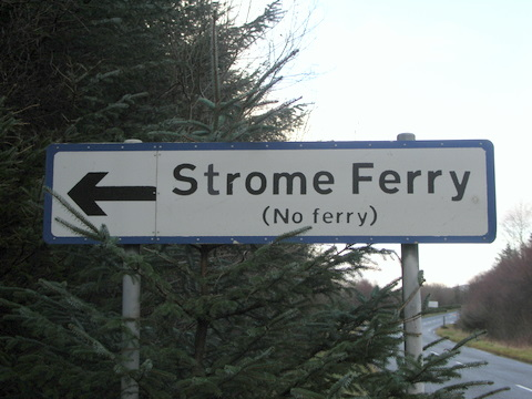 The famous Strome Ferry (No ferry) signpost